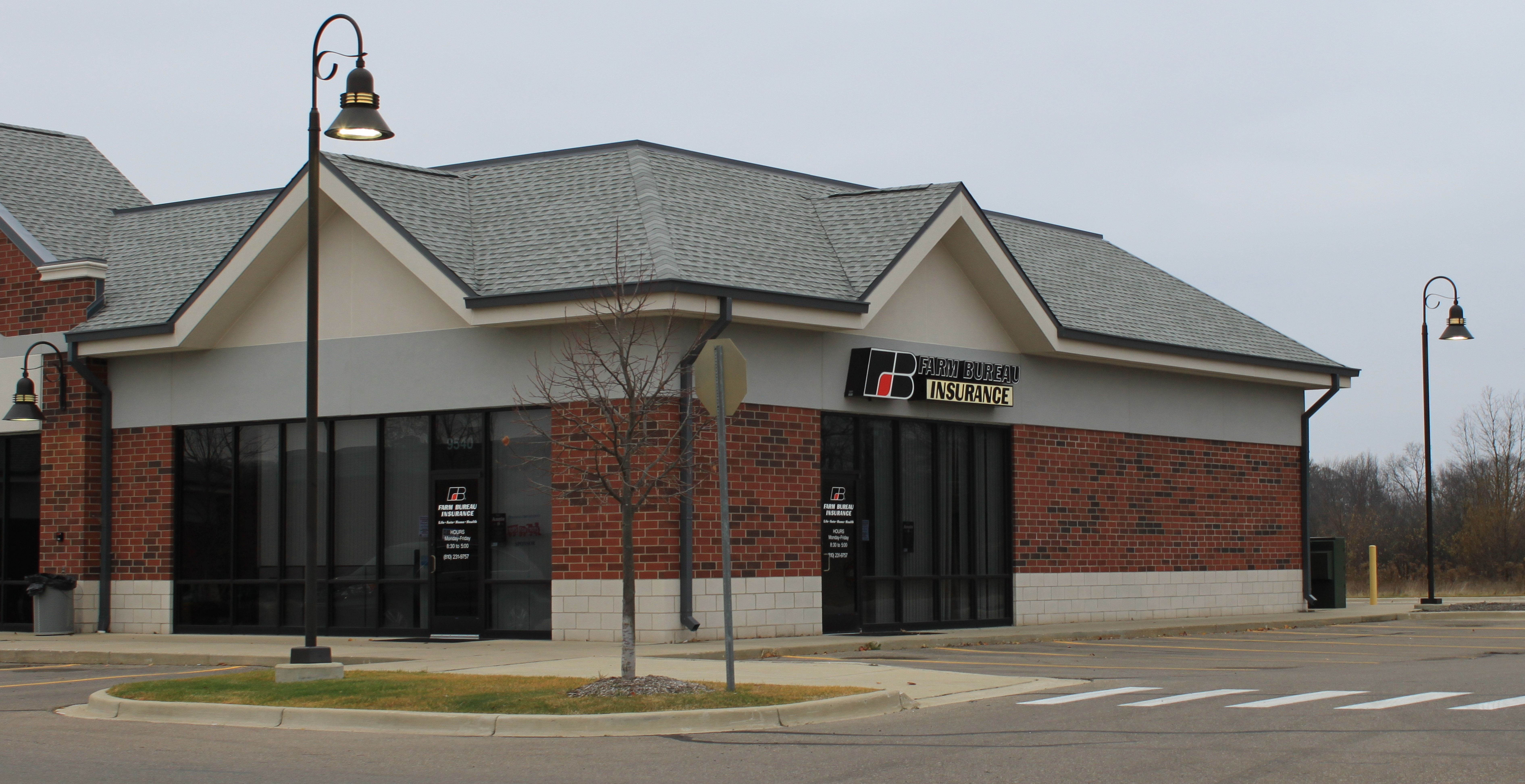 Farm Bureau Insurance office, 9540 Chilson Commons Circle, Pinckney, Michigan